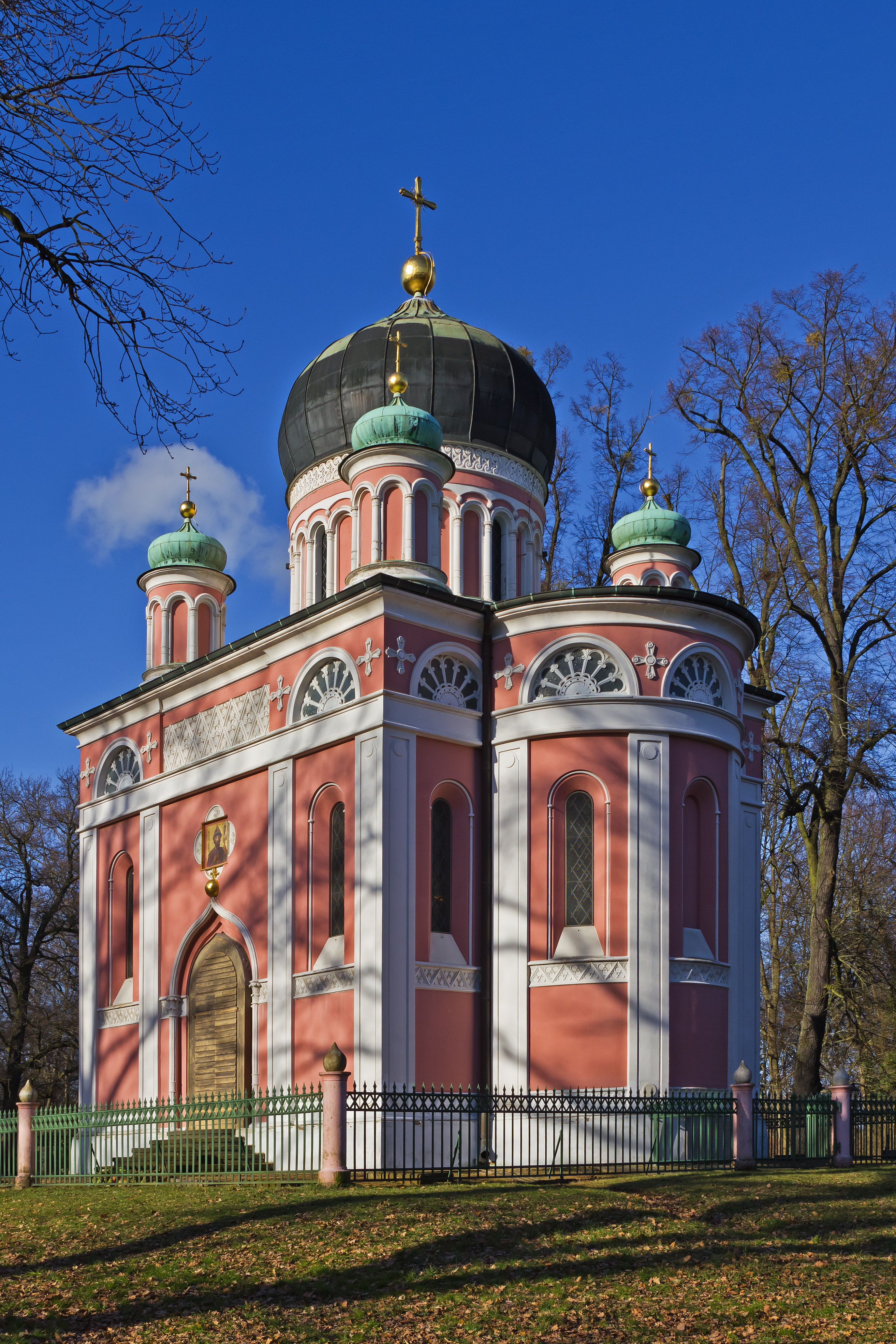 Russian settlement Alexandrowka in Potsdam, Germany. The Church of St. Alexander Nevsky.